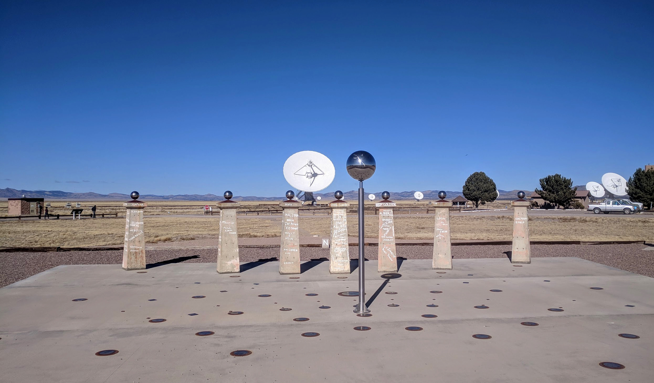 The Bracewell Radio Sundial at the Very Large Array in New Mexico. Named for Ron Bracewell, this sundial marks on the ground positions of the shadow of the central sphere (the gnomon) at different times of day and times of year. The shadow on Dec 22, 2017, falls on the winter solstice line, at the 1:00 PM (solar time) mark in this photo. The other two lines of spots north of the gnomon are for the equinoxes and the summer solstice. More closer lines of spots south of the gnomon mark positions of shadows of radio sources in Cygnus A and Cassiopeia A.